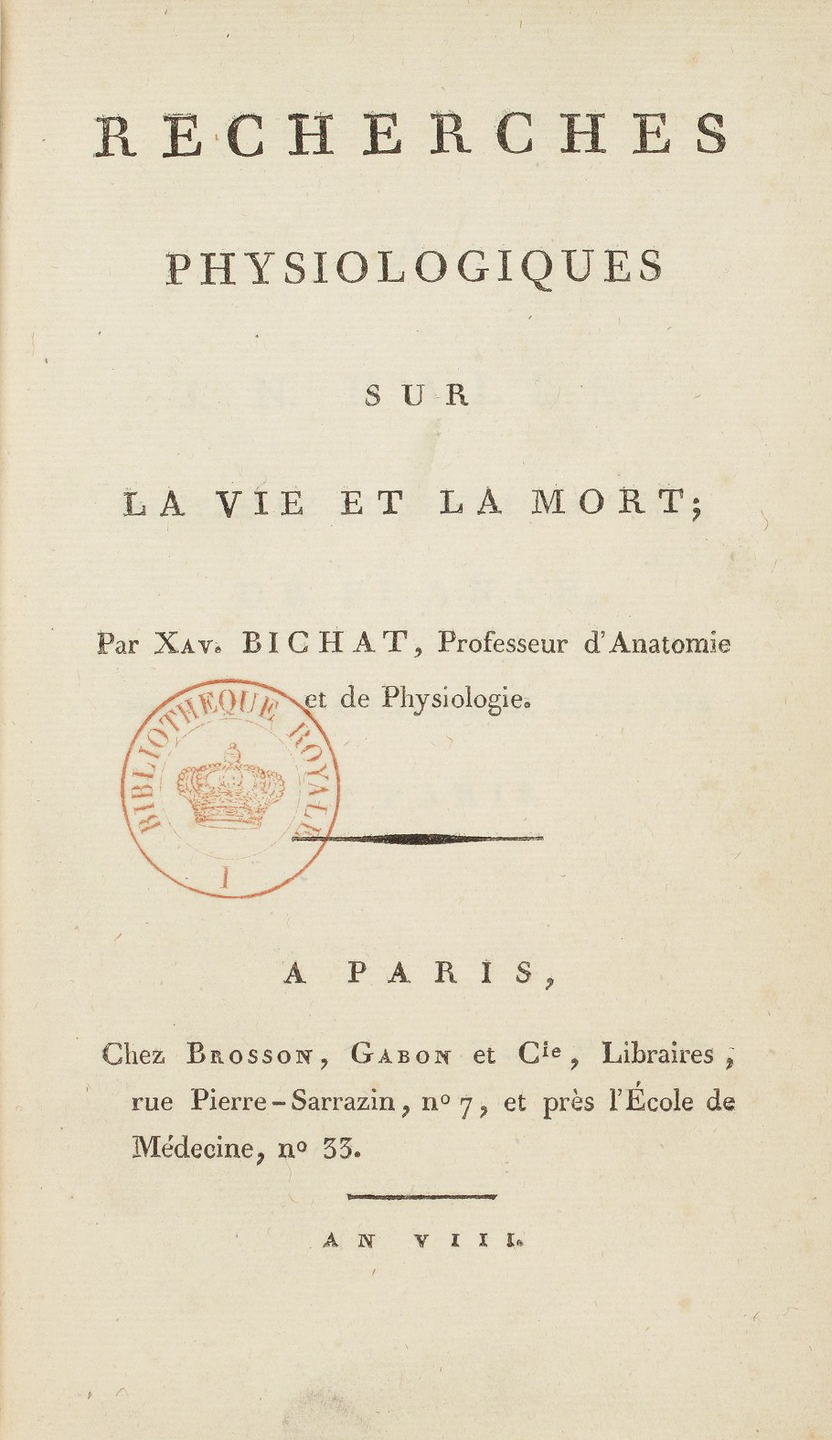 Title page of Xavier Bichat's Recherches physiologiques sur la vie et la mort